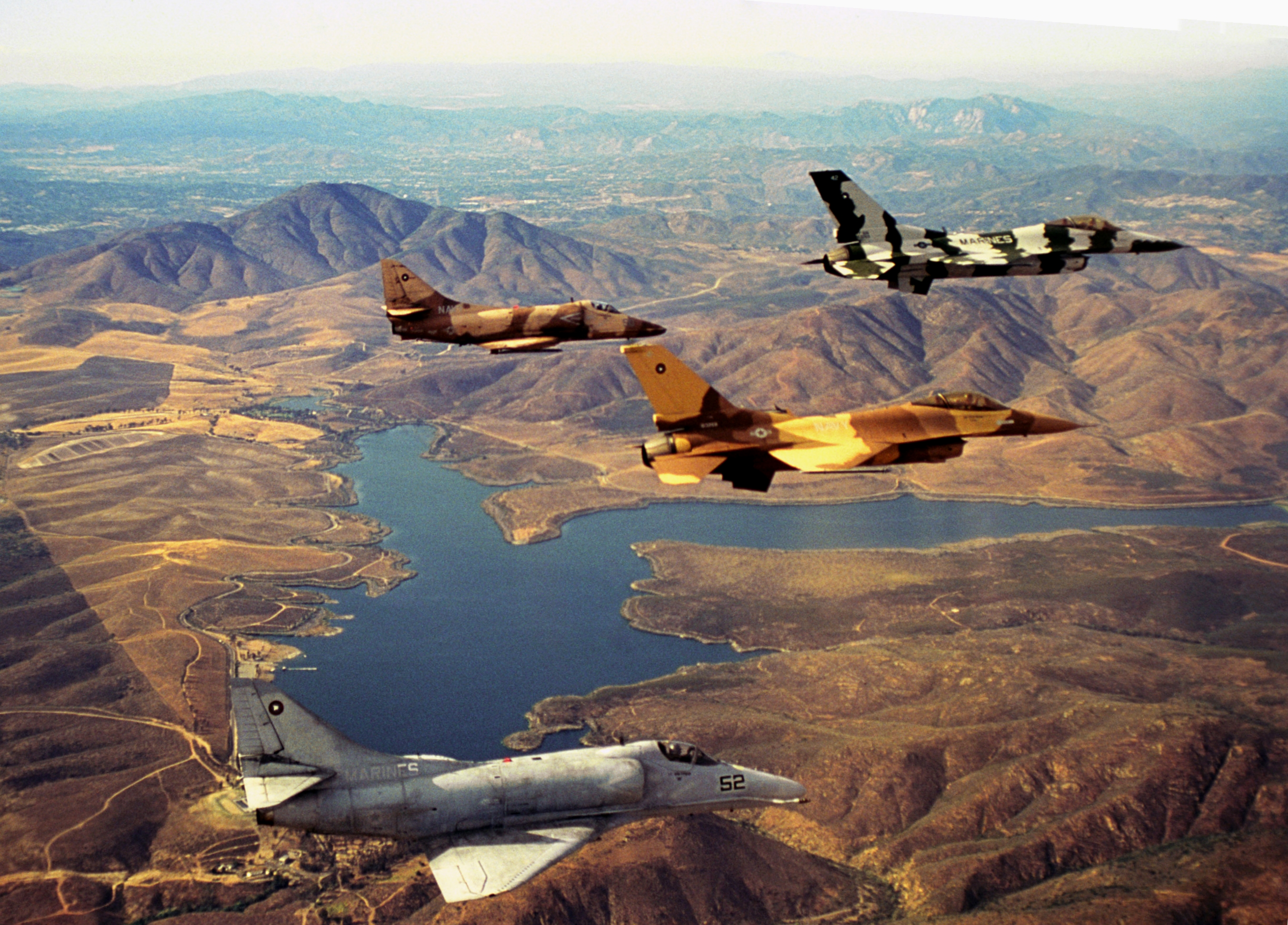 Two U.S. Navy/U.S. Marine Corps General Dynamics F-16N Viper and two Douglas A-4F Skyhawk of the United States Navy Fighter Weapons School ("Top Gun") flying over Lower Otay Reservoir, Chula Vista, California (USA).